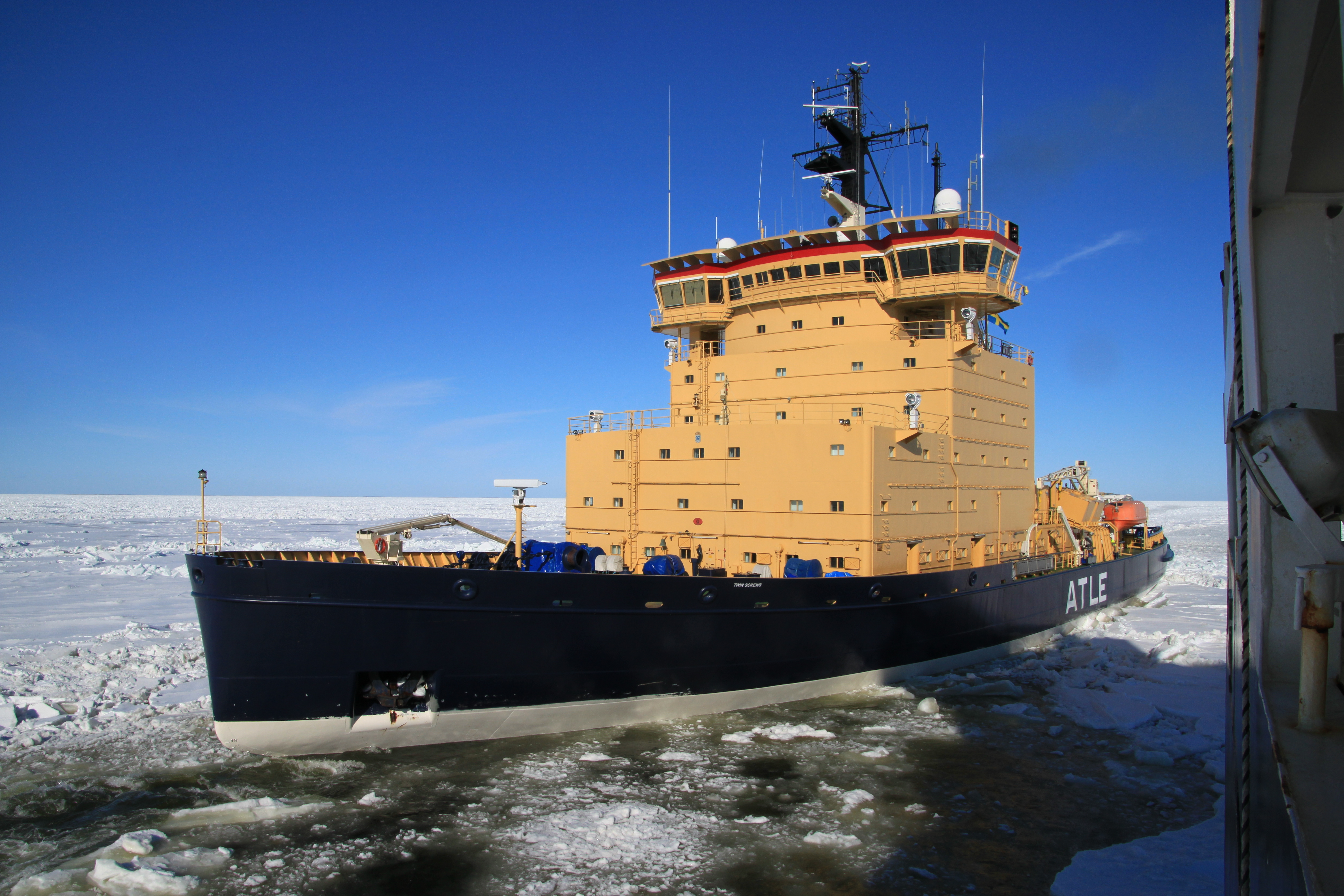 Icebreaker Atle in the ice